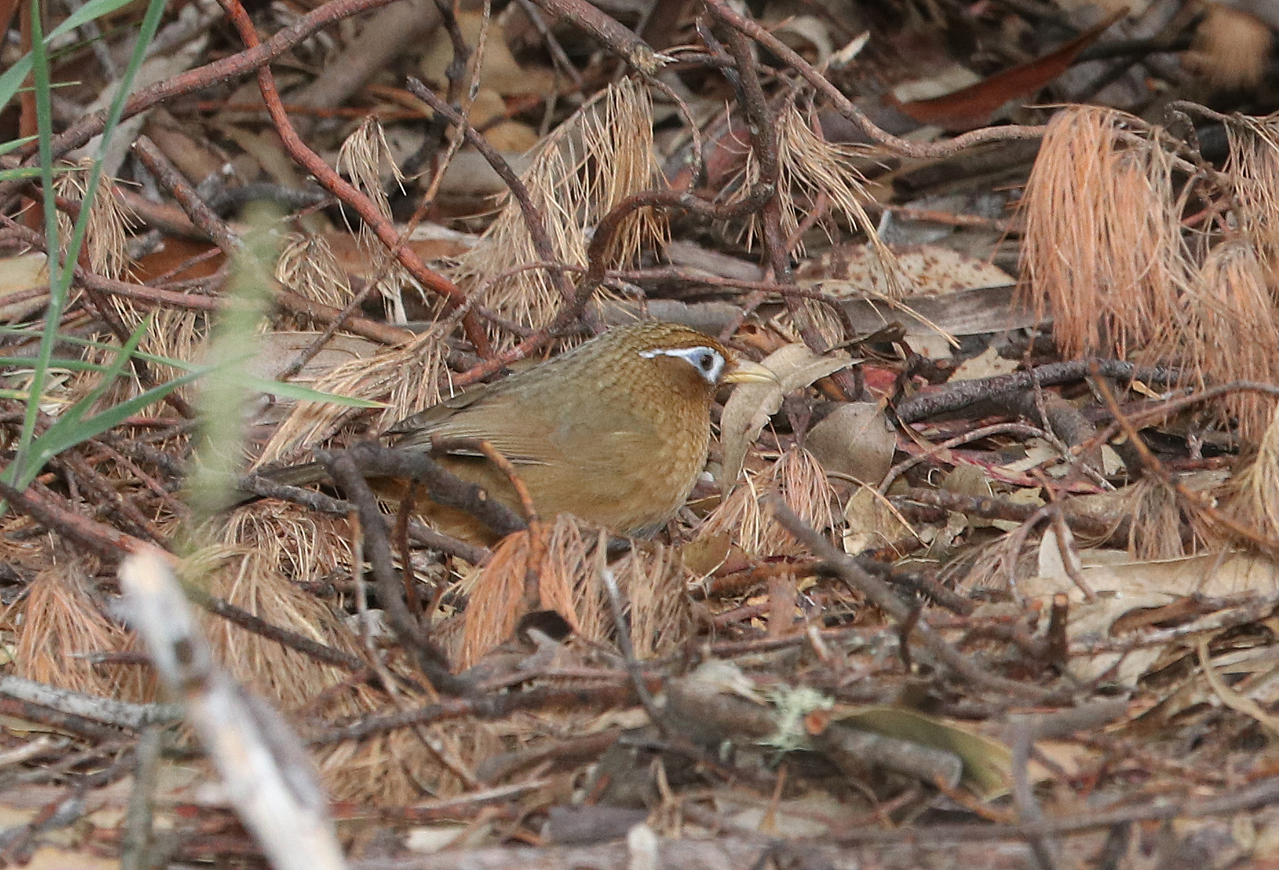 CHINESE HUAMEI (5-3-2018) hosmer grove, haleakala nat park, maui co, hawaii -03